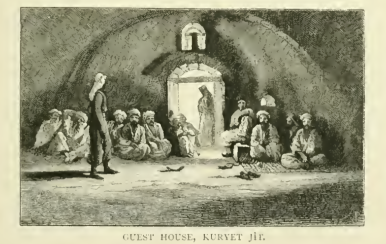 Guesthouse in Jit